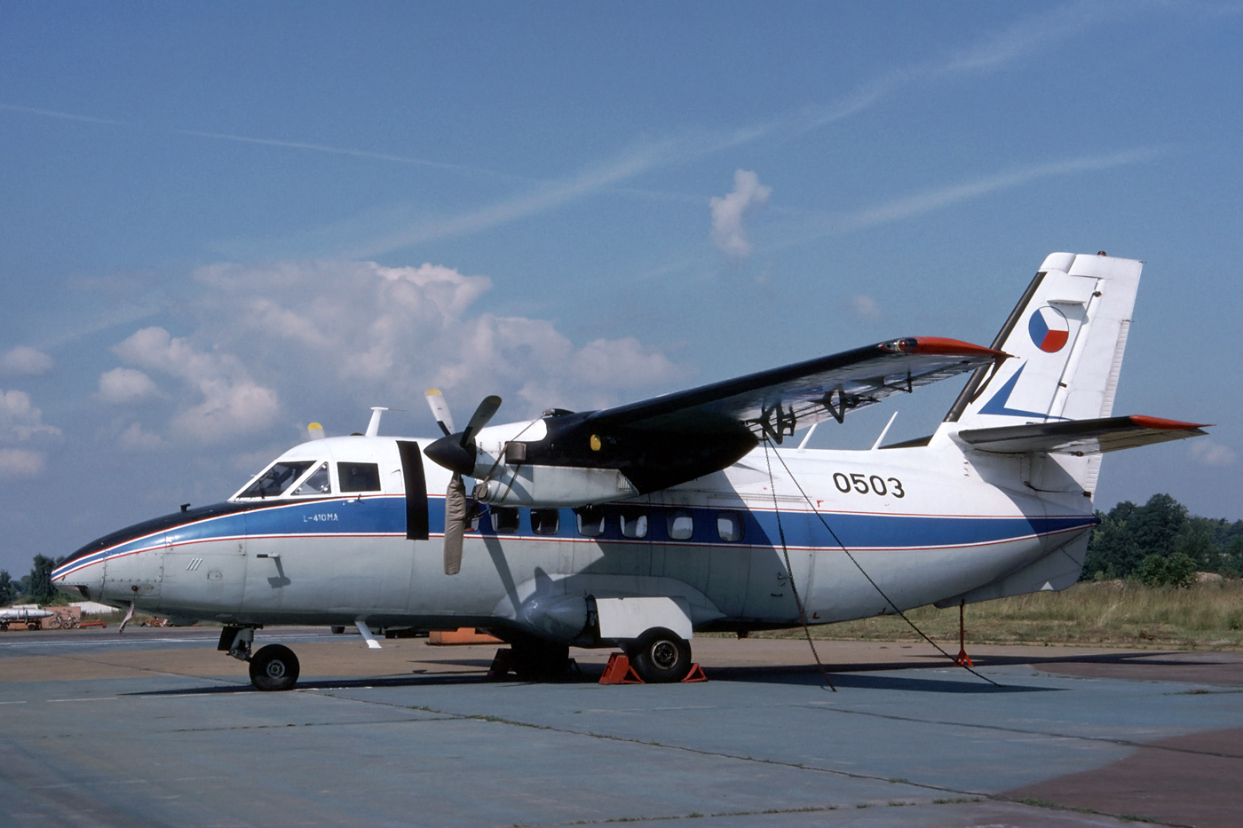 A nice old Let L-410MA at Pardubice, Czech republic, in 1994. Seen during a base visit in 1994. This 'second generation' L-410 had three blade props and smaller wings and tail than the later UVP-version.